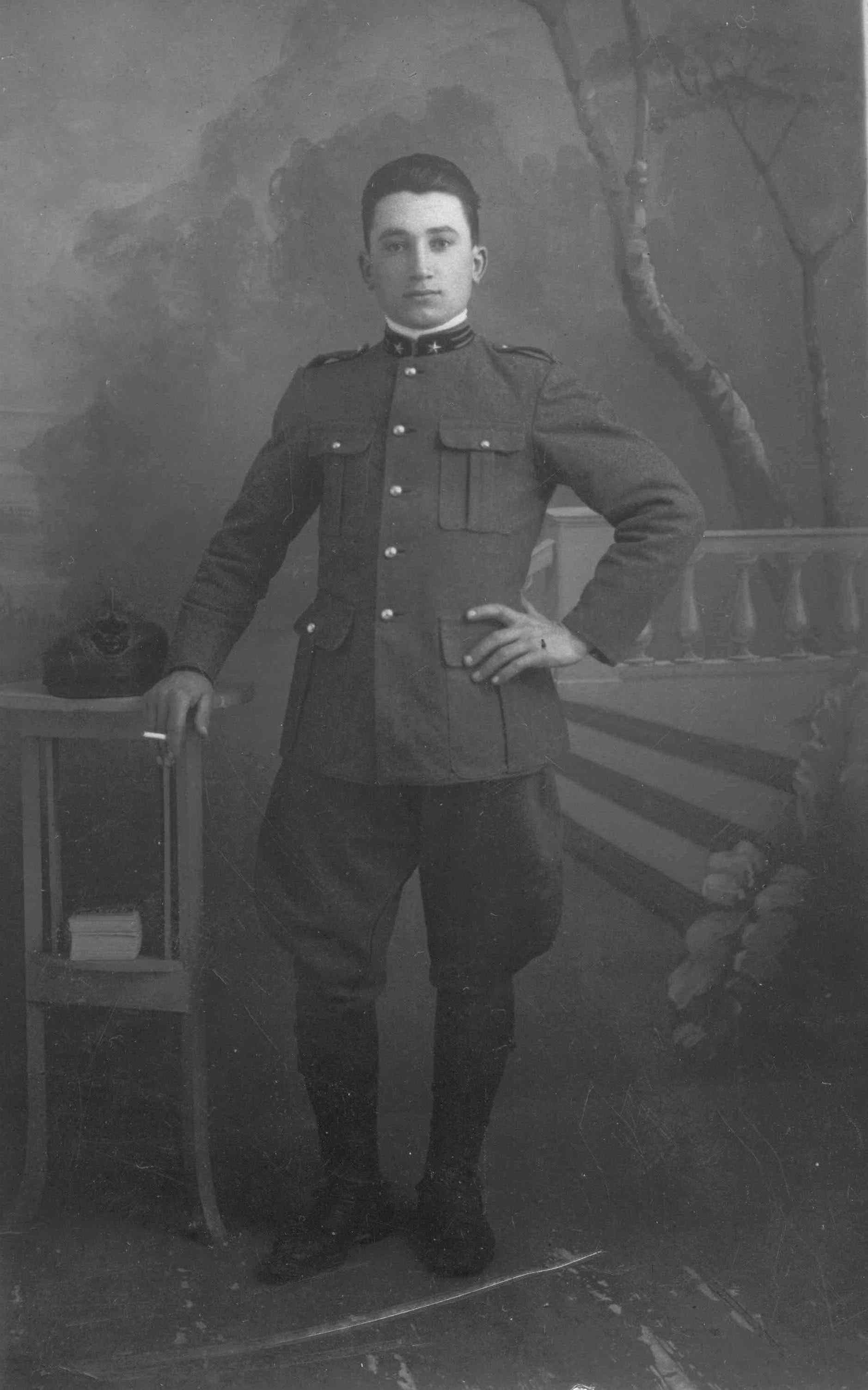 Vittorio Culpo during his national service in Italy